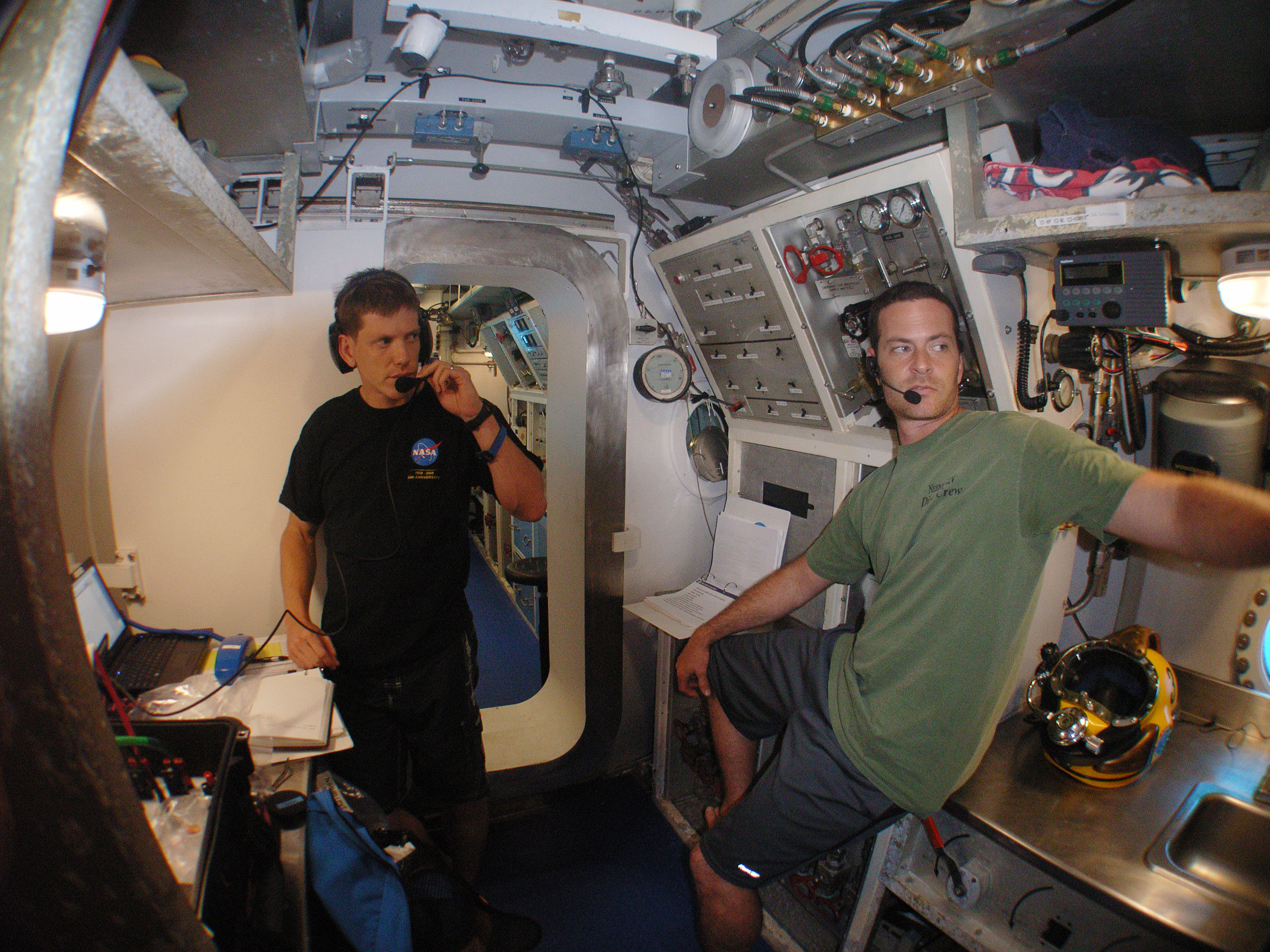 NEEMO 14 aquanauts, biomedical engineer Andrew Abercromby (left) and Aquarius habitat technician Nate Bender, performing communication checks from the Aquarius underwater habitat during the NEEMO 14 mission in May 2010. NASA photo JSC2010-E-077813 in public domain.